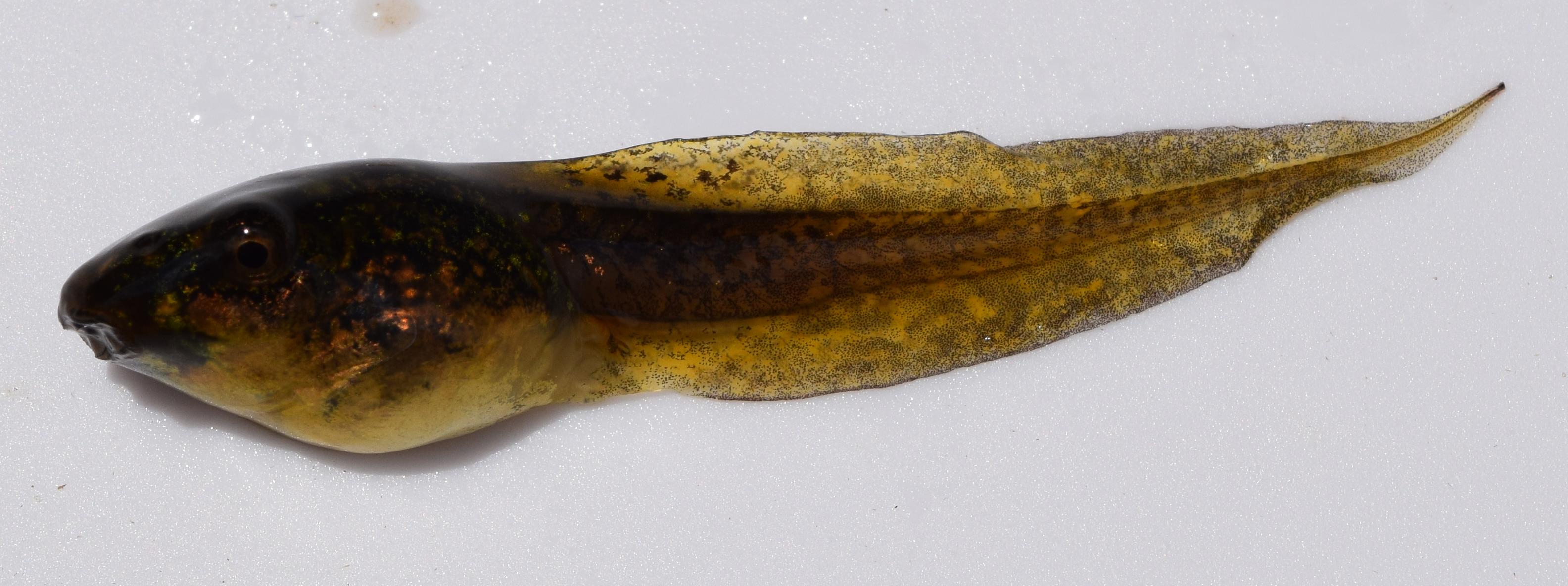 A Hyla cinerea (American green treefrog) metamorph at the University of Mississippi Field Station.